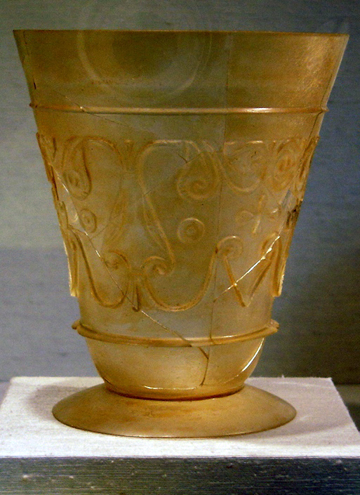 This is a Ziyarid era art: a 9-10th century beaker from Iran. Blown and relief-cut glass. Now located in the New York Metropolitan Museum of Art.